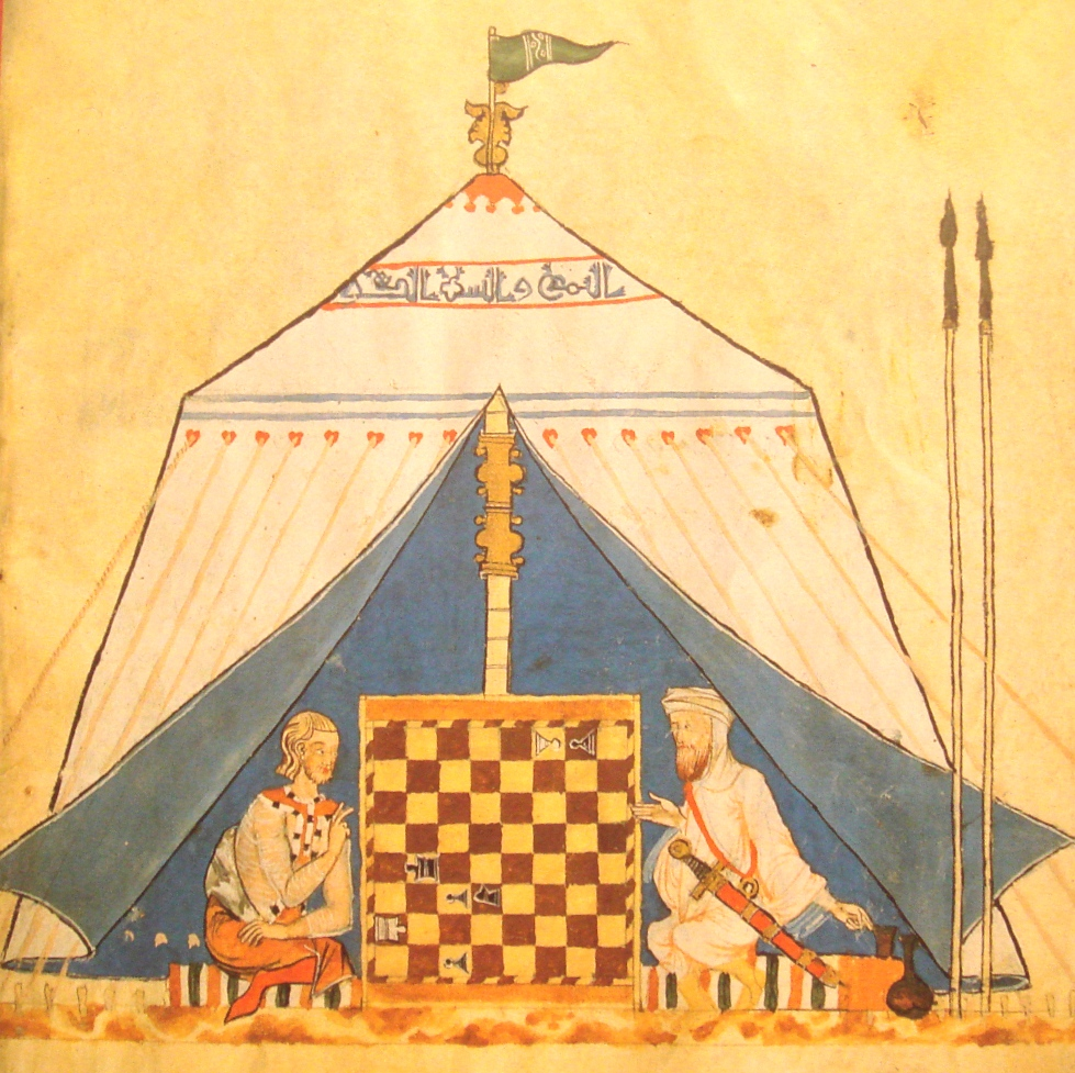 Christian And Moor Playing Chess. Libros de juegosd'Alphonse X le sage fol. 64r.